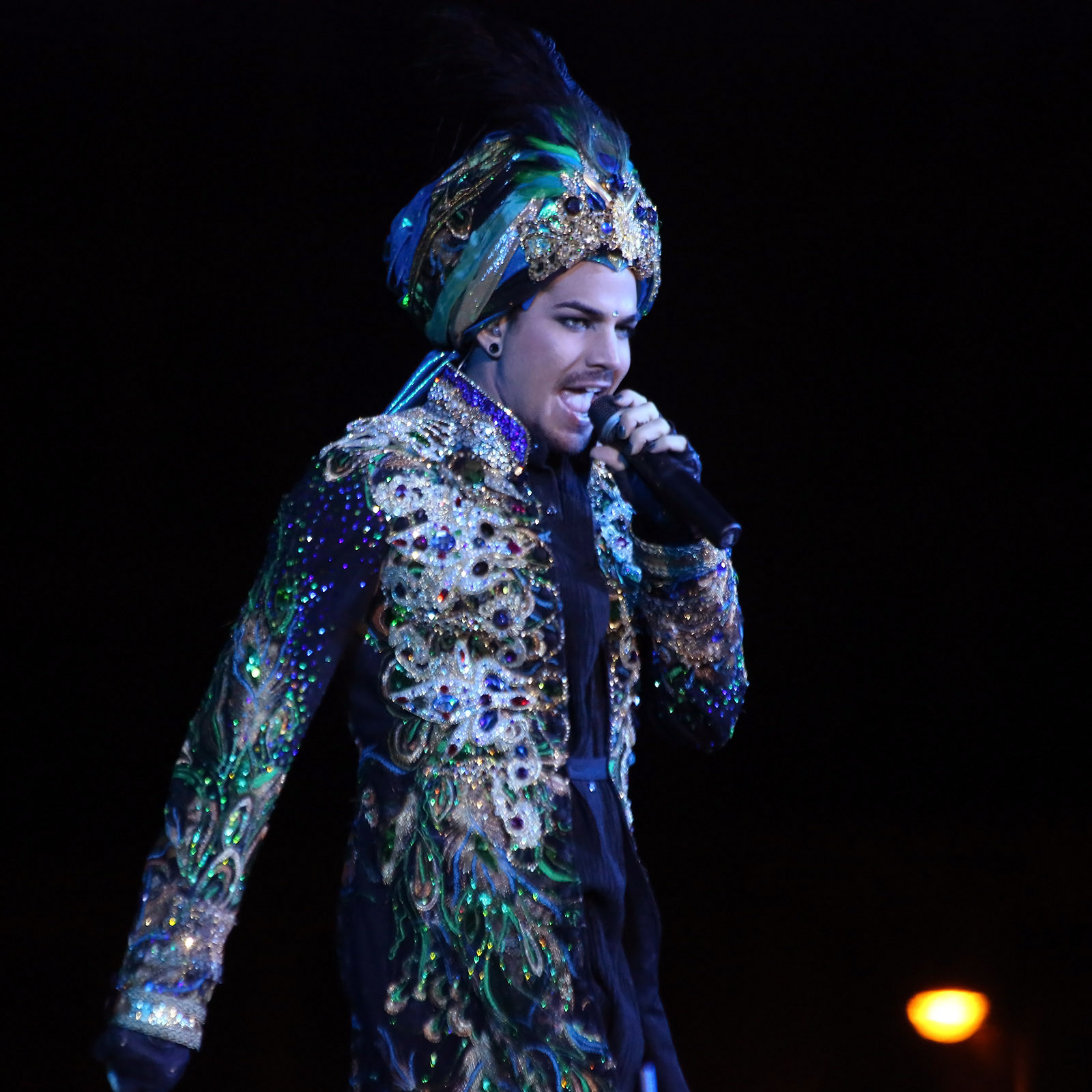 Adam Lambert, opening show of Life Ball 2013 at the city hall of Vienna, Vienna, Austria.